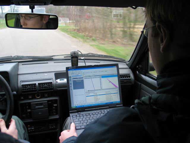 Satellite navigation. Image shot by uploader.